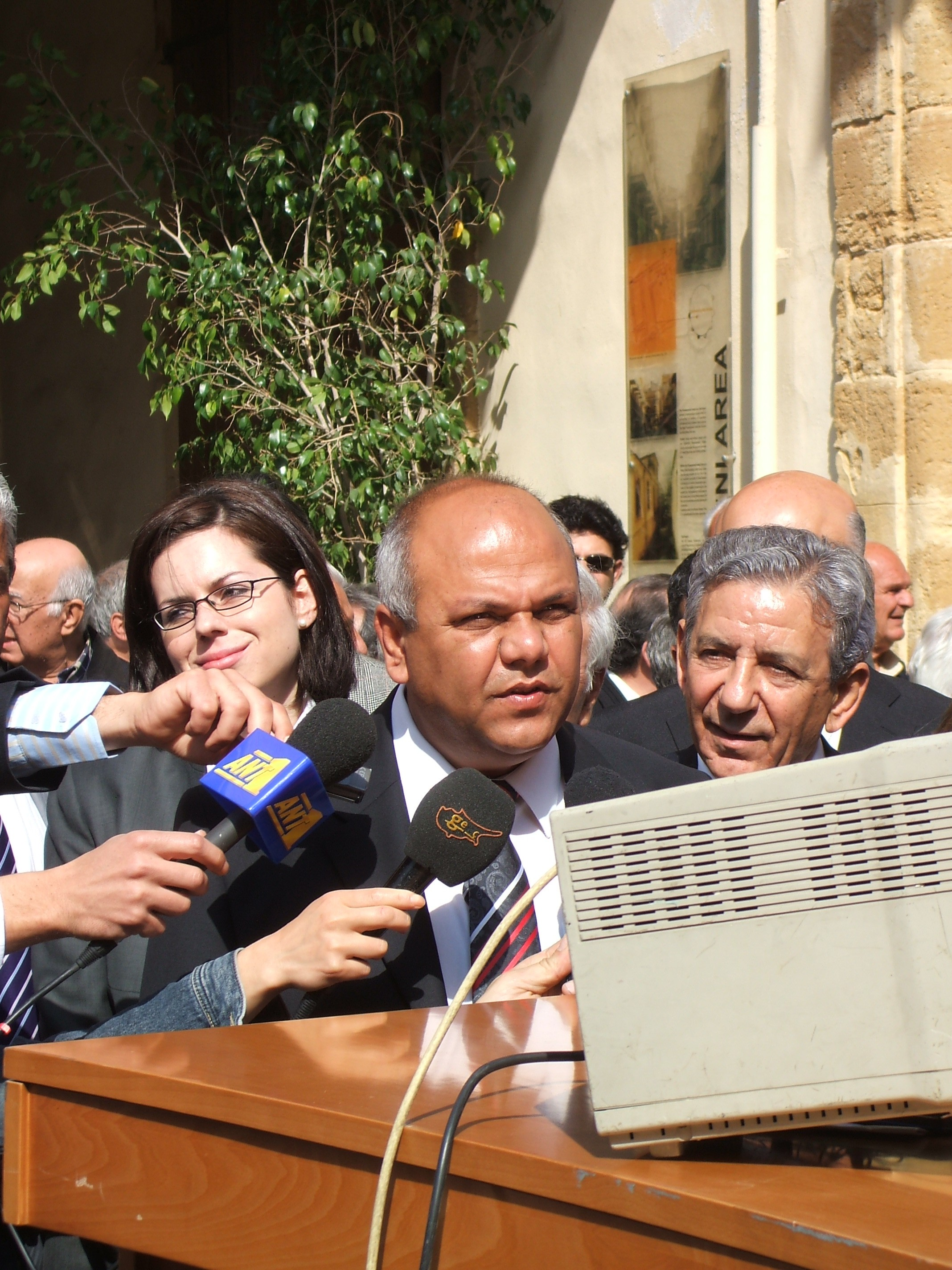 The city of Nicosia, Cyprus, on 3 April 2008, the day when the Green Line at Ledra Street was reopened: The mayor of the northern part of Nicosia, Cemal Metin Bulutoğluları